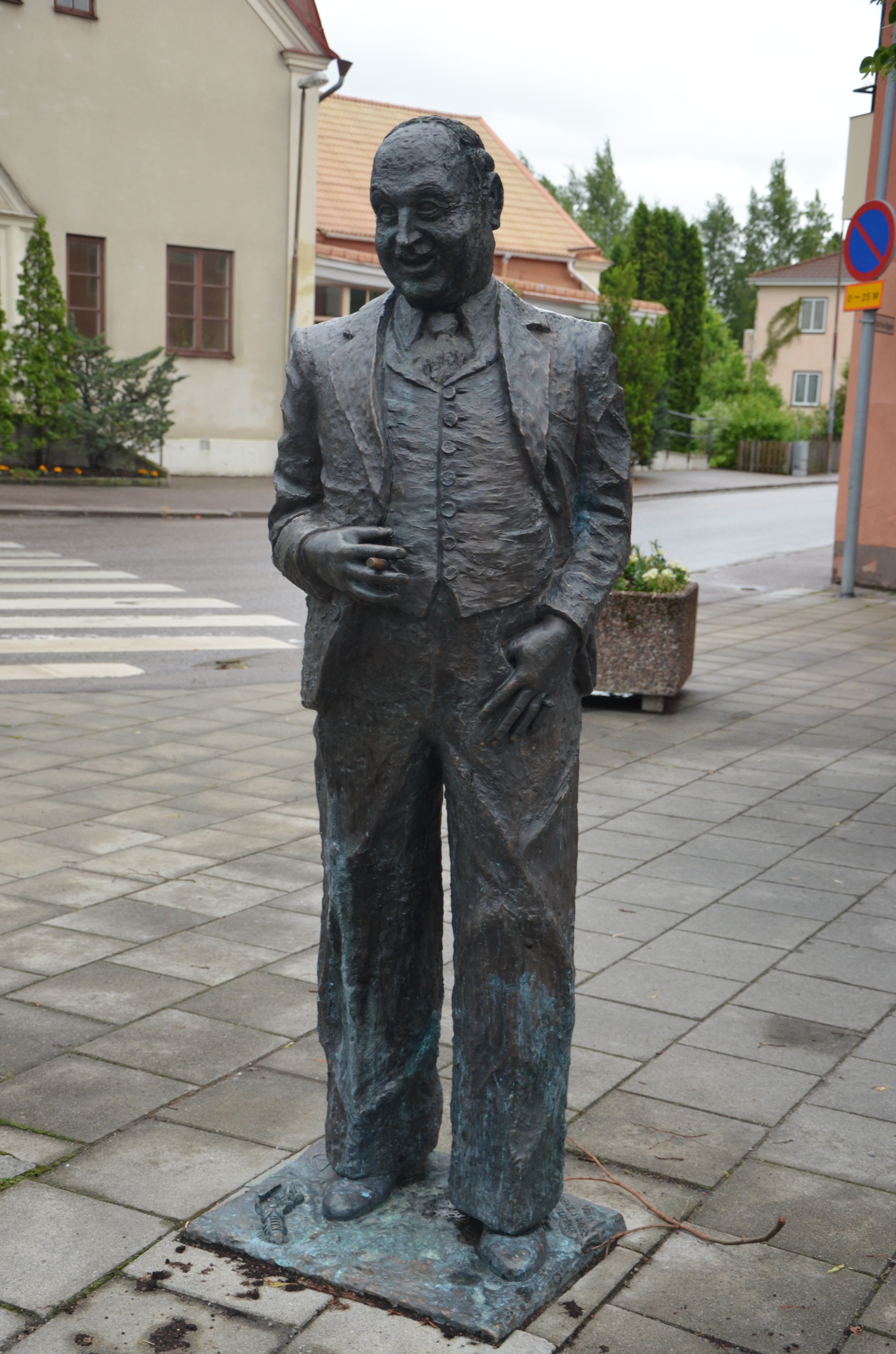 Statue of Thor Modéen by Birgitta and Erik Stenberg, 1998, Kungsör, Sweden